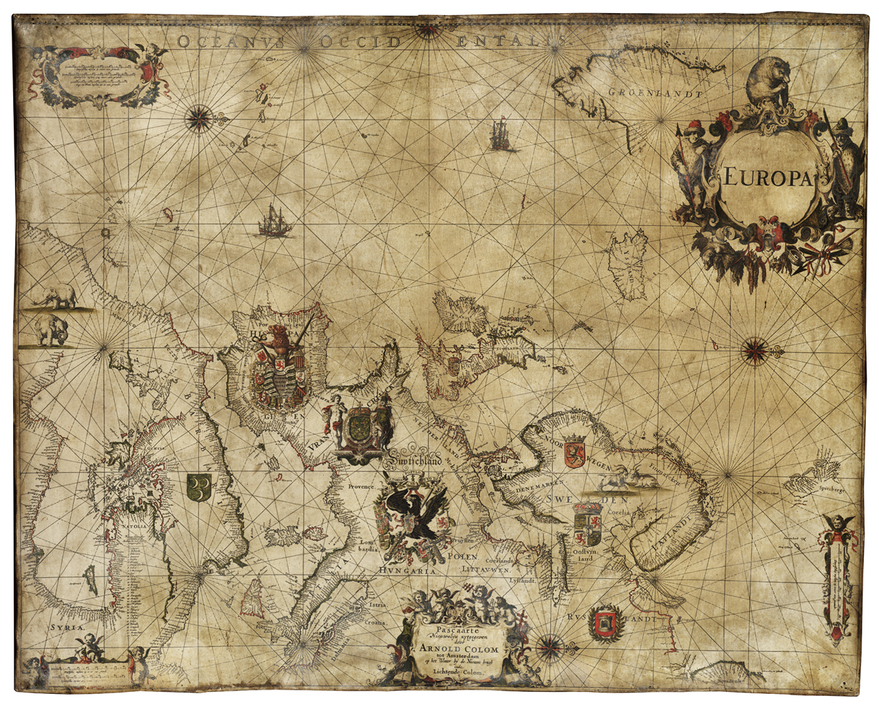 Europa. Pascaarte niewelyx uytgegeven door Arnold Colom tot Amsterdam op het water by de nieuwe brugh inde Lichtende ColomSingle sheet. Engraving printed on vellum, hand coloured in outline. This is a plane chart with north at 90 degrees and containing a latitude bar. The eastern Mediterranean is shown as an inset superimposed on north Africa. The title cartouche shows fur trappers, a bear and animal skins. The maker cartouche shows cherubs with cross-staffs. Other decoration includes ships, animals, figures and coats of arms. Areas covered include the NE Atlantic, Europe and the Mediterranean. G213:3/2(2) Europa